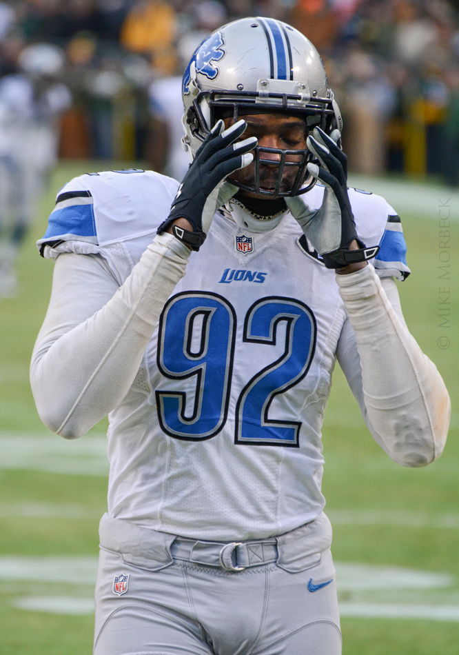 Detroit Lions defensive end, Devin Taylor, playing against the Green Bay Packers on December 28, 2014.